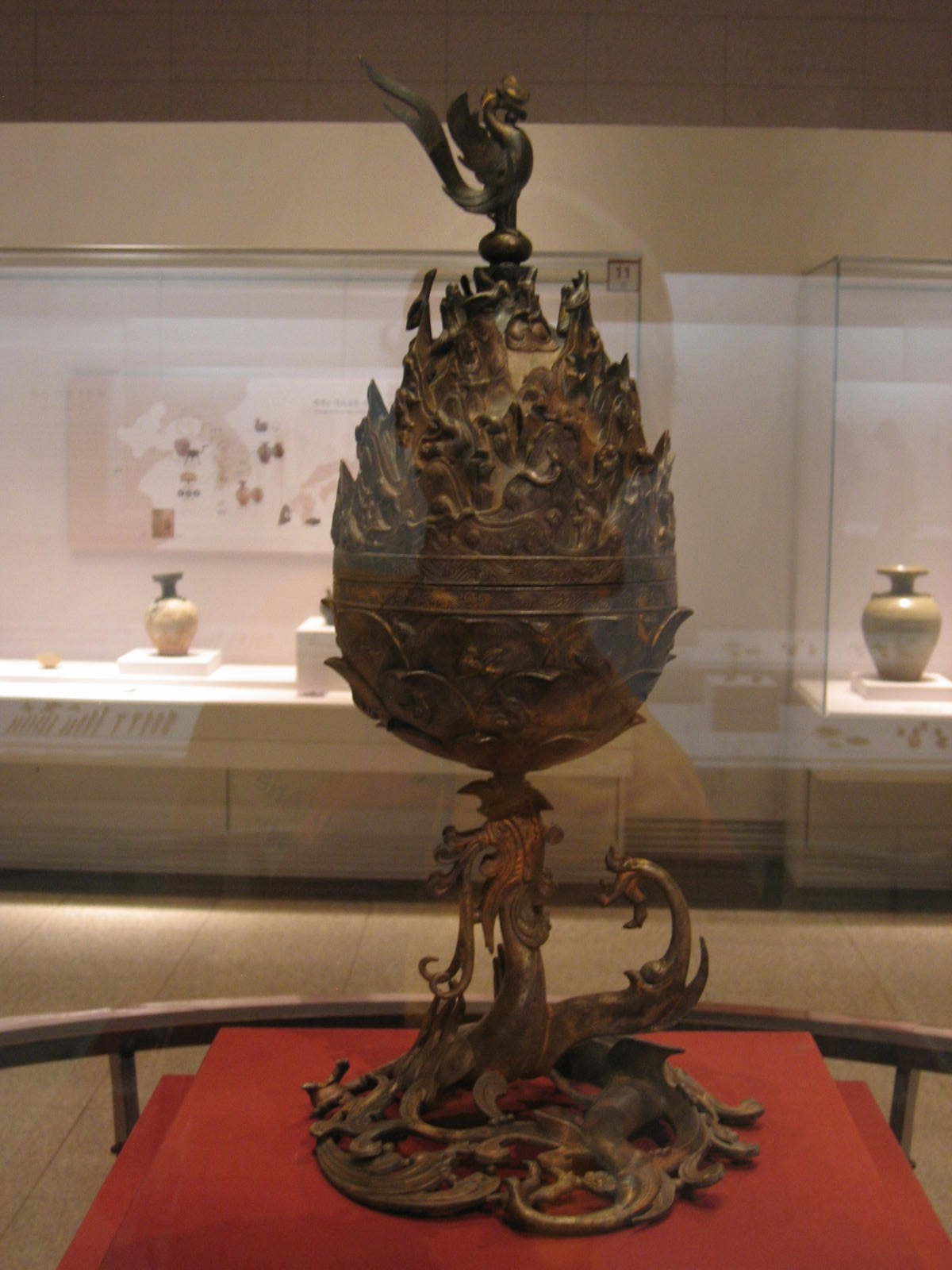 Baekje incense burner. Three Kingdoms of Korea period.